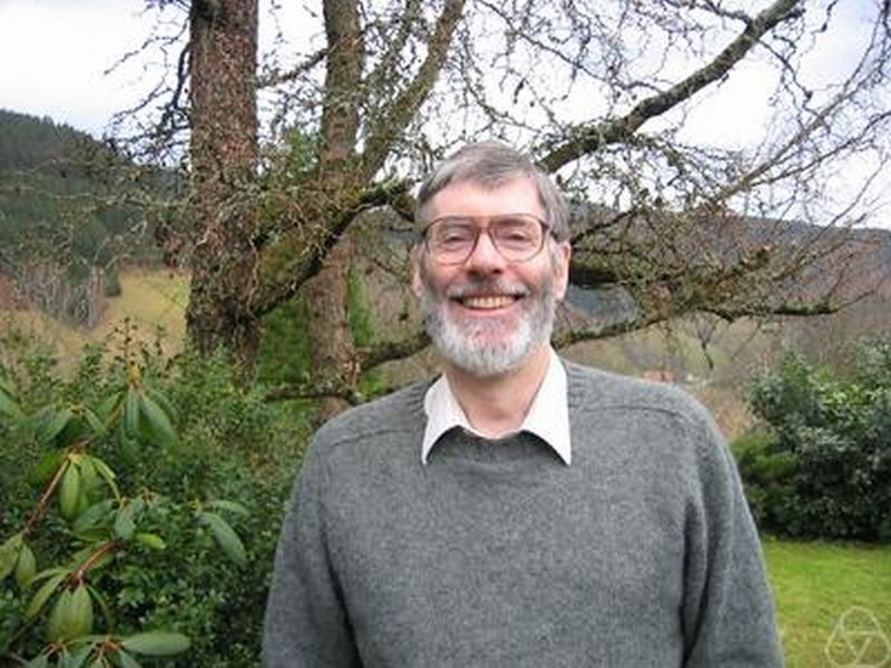 Michael J. Todd, Oberwolfach 2005